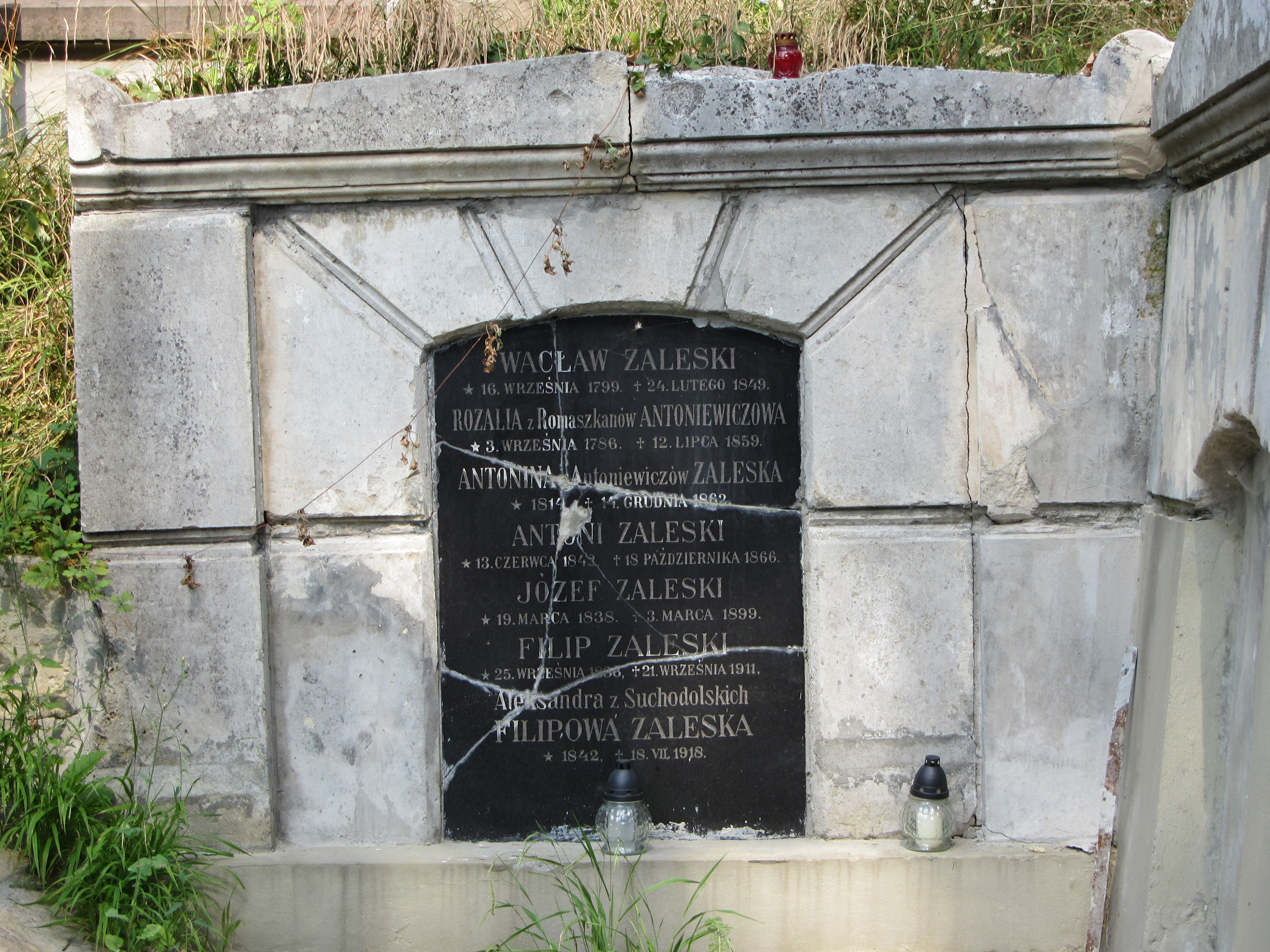 Cmentarz Łyczakowski